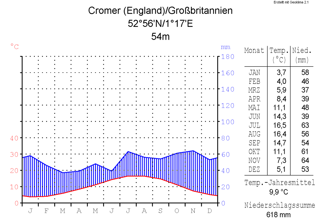 climate chart in the format by Walter and Lieth, metric, °Celsisus and millimeters, made with Geoklima 2.1